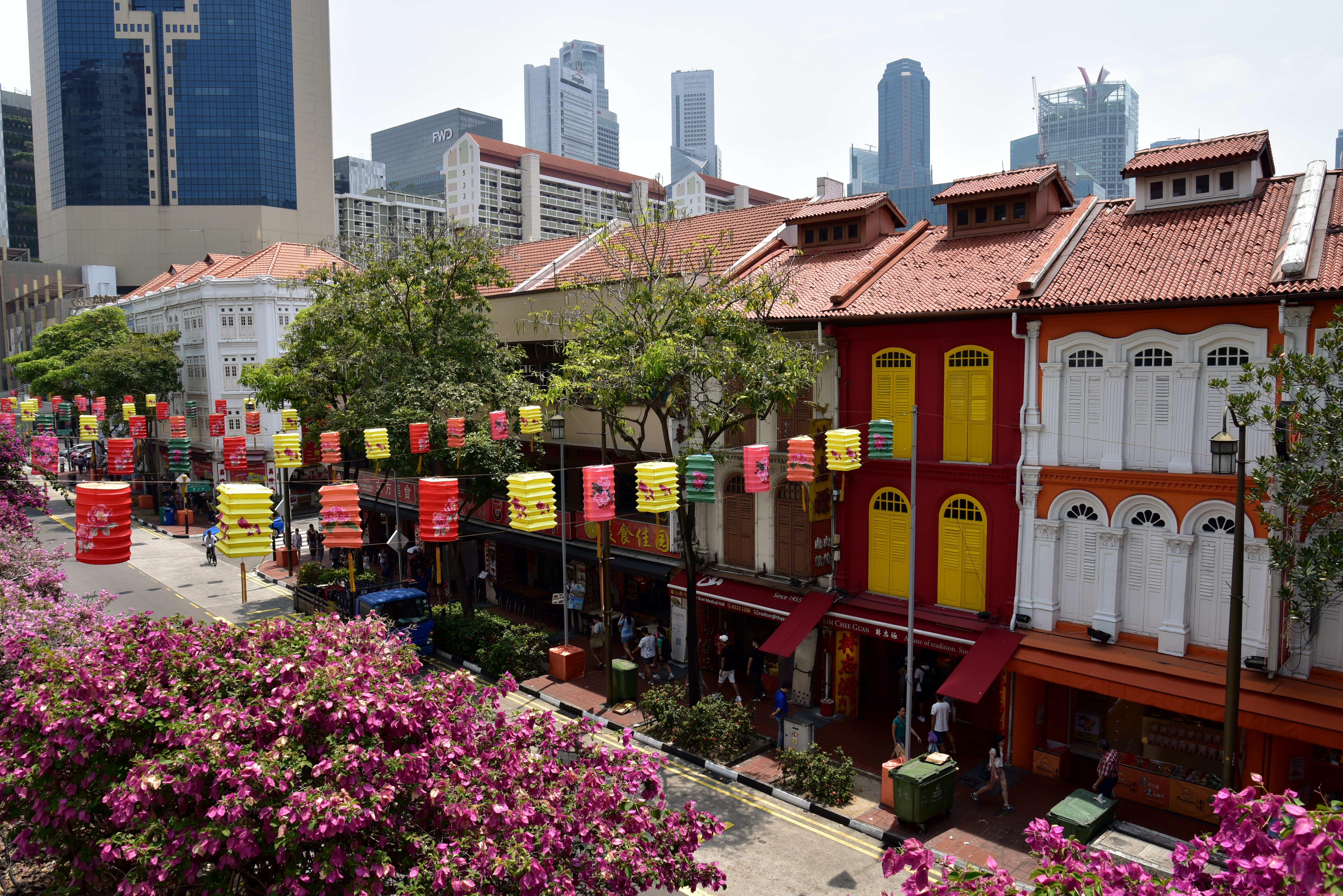 View of New Bridge Road, Singapore, from the Garden Bridge